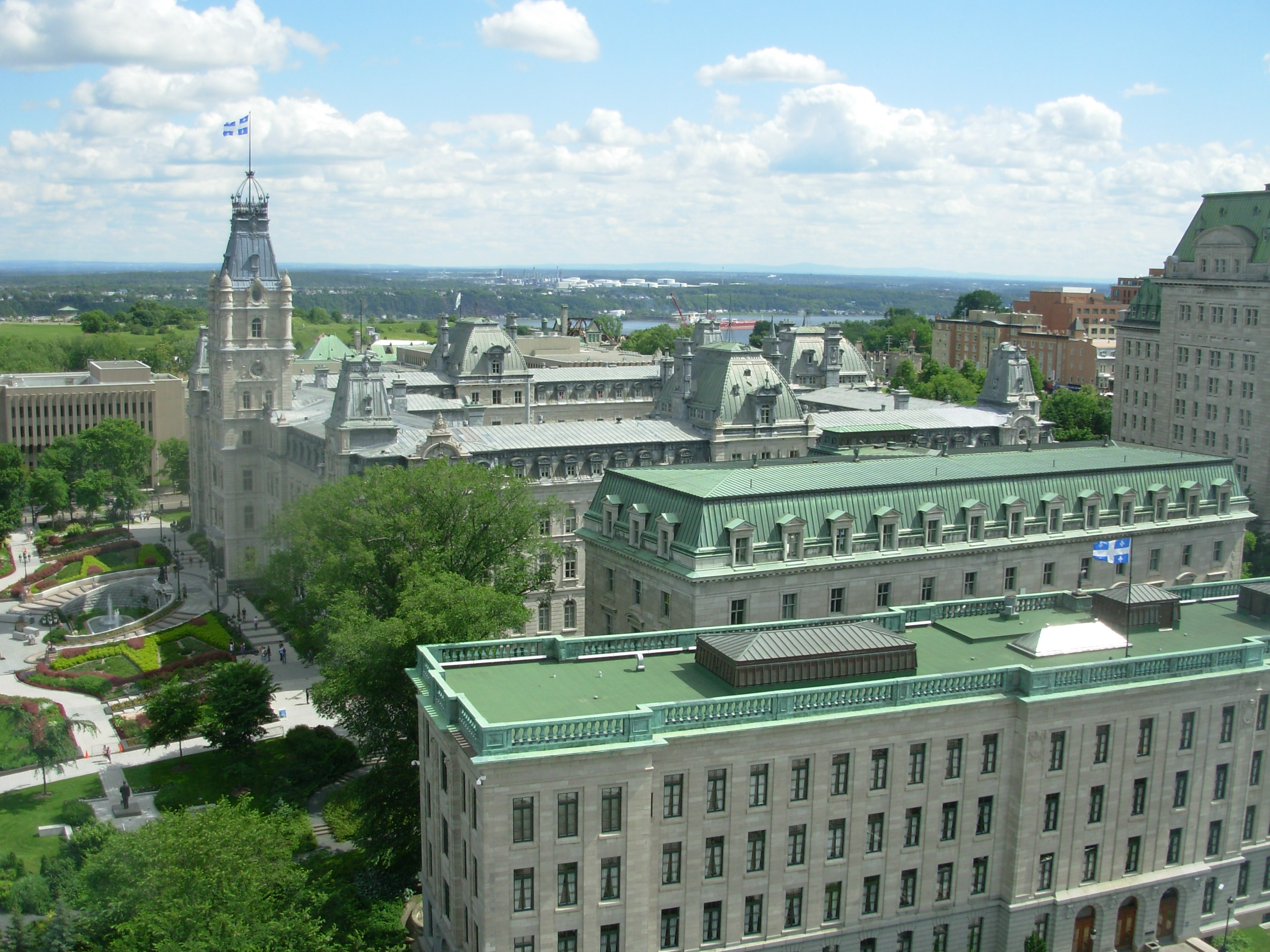 parlement de québec